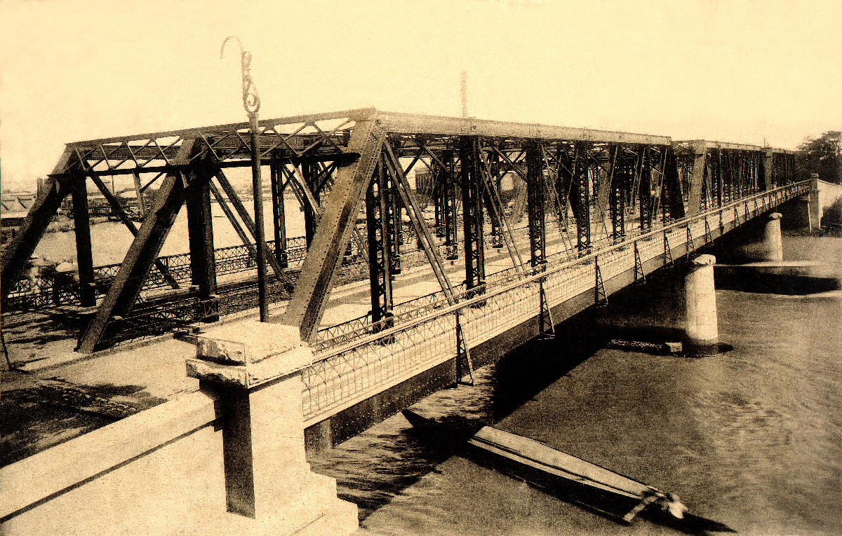 The old Santa Cruz Bridge over the Pasig River in Santa Cruz, Manila.